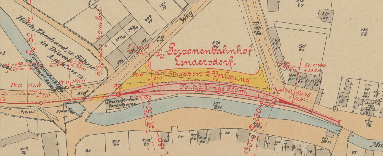 Plan of Lendersdorf Station of Dürener Kreisbahn